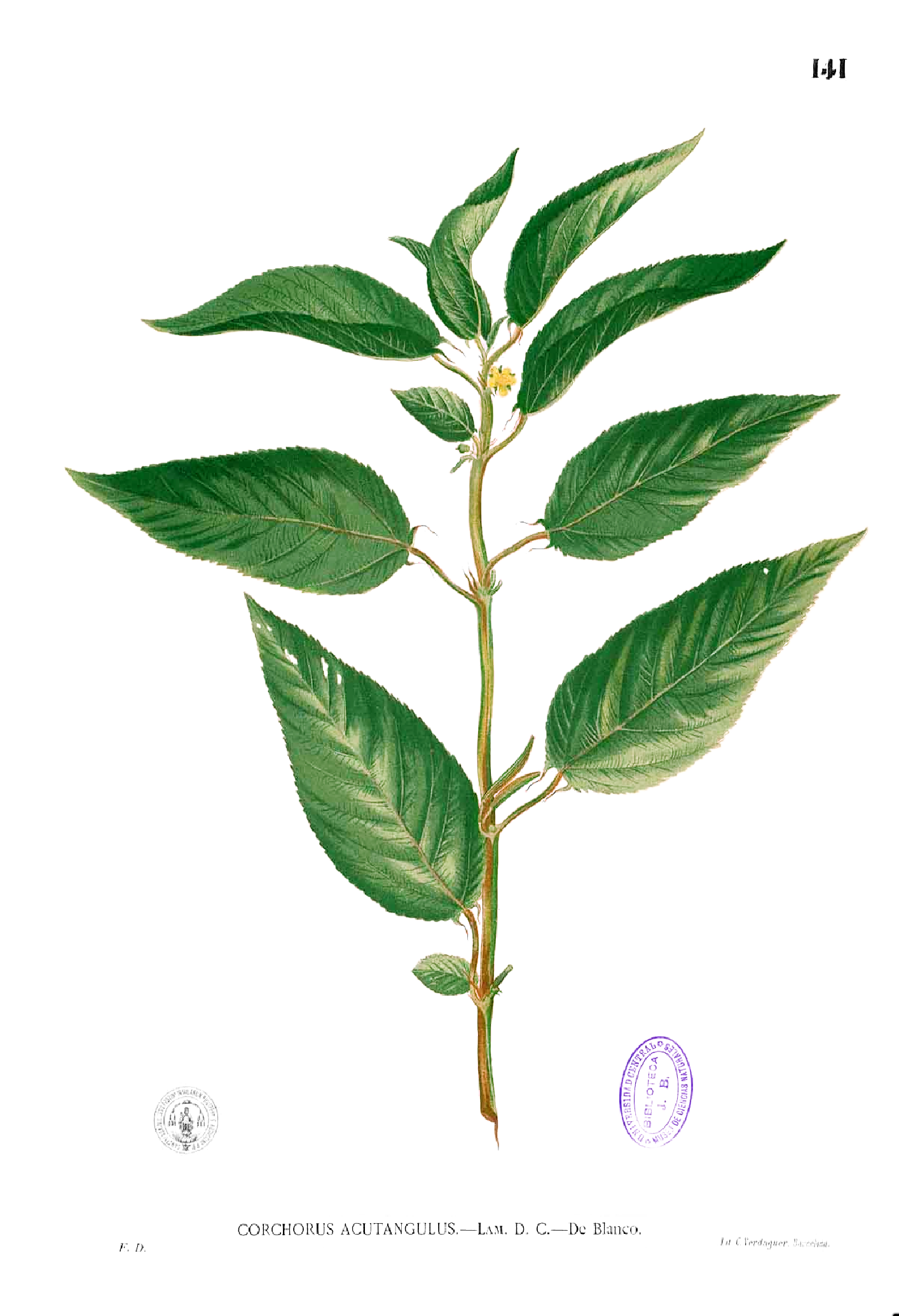 Plate from book